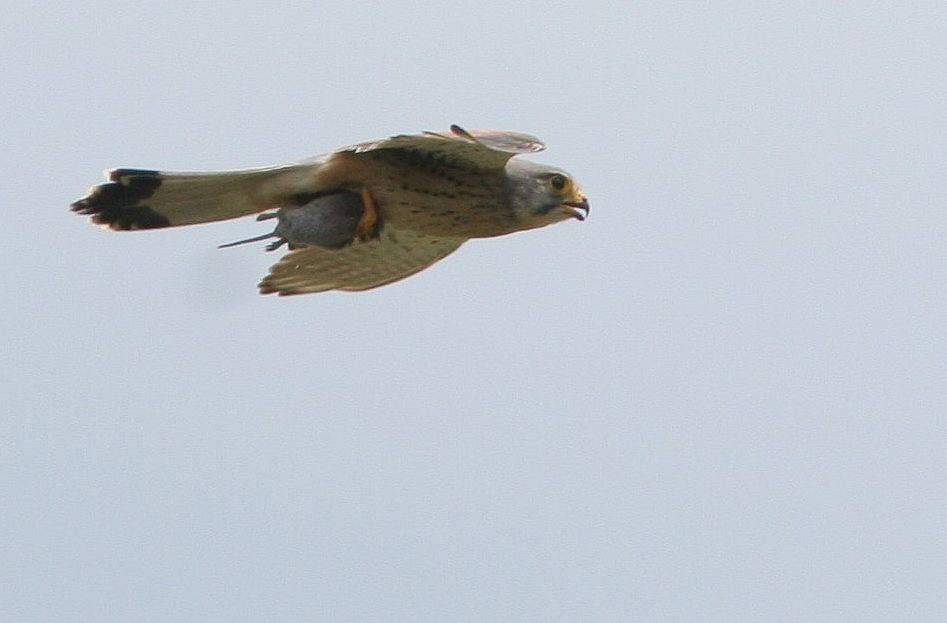 Falco tinnunculus, Romania 2007, male brings food for youngs